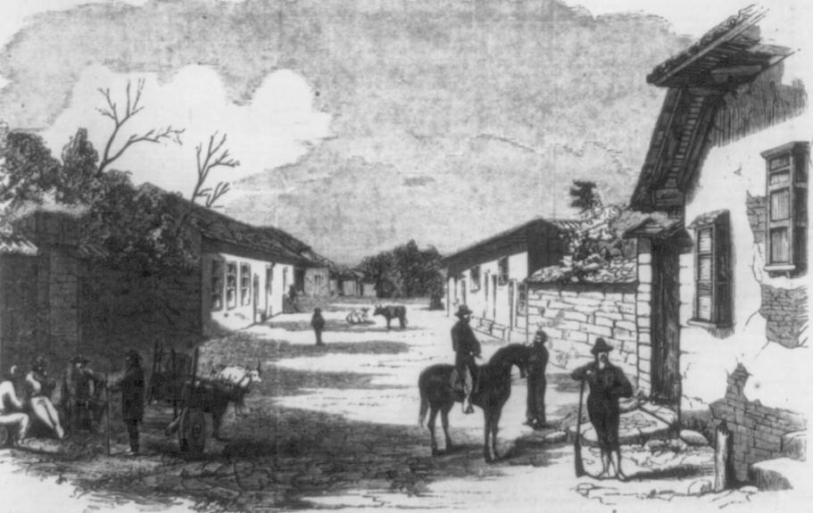 Residence of Santos Guardiola, at Comayagua, Capital of Honduras, 1856